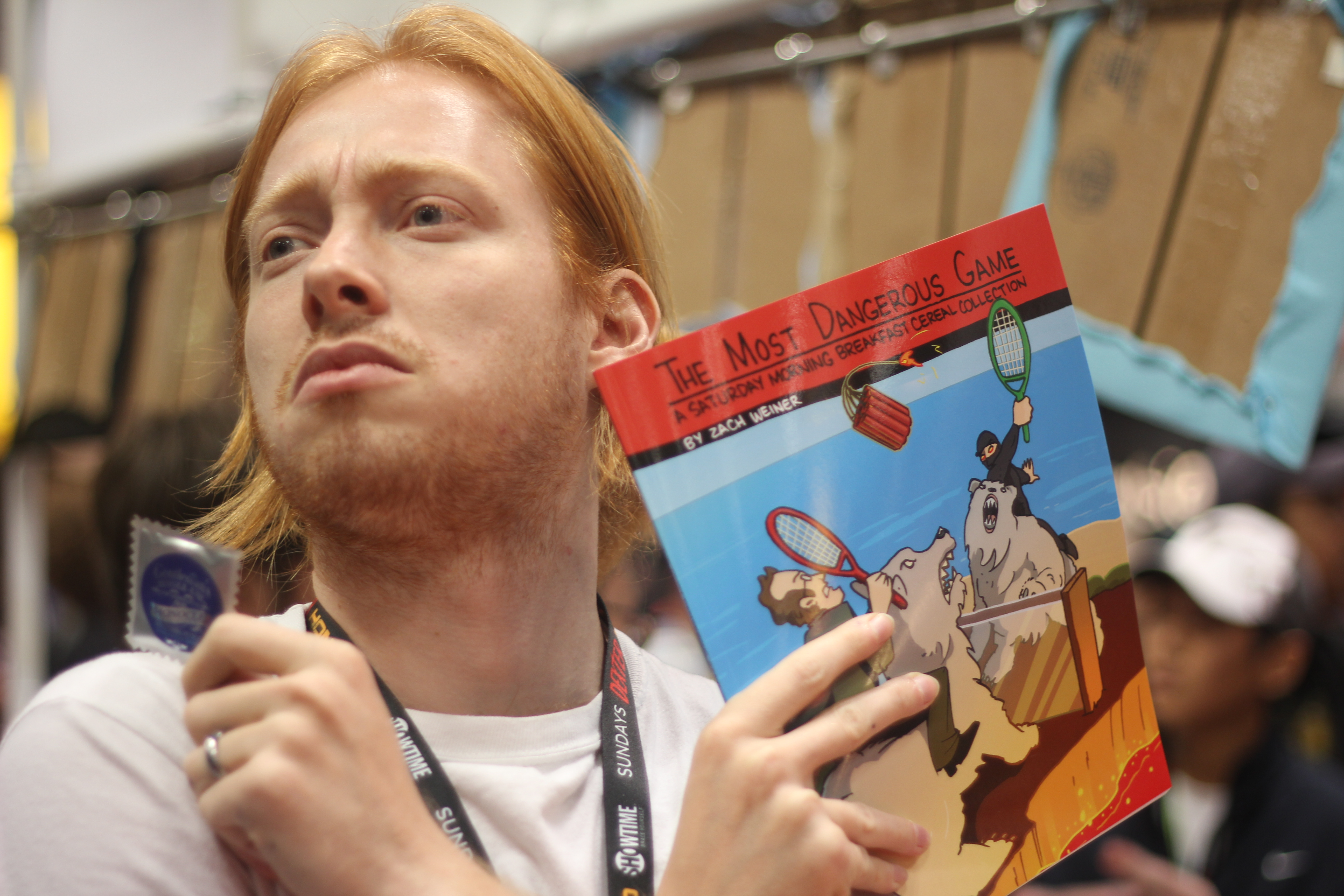 Saturday Morning Breakfast Cereal creator Zach Weinersmith holding a copy of one of the SMBC collections, The Most Dangerous Game, and a lubricated monocle.